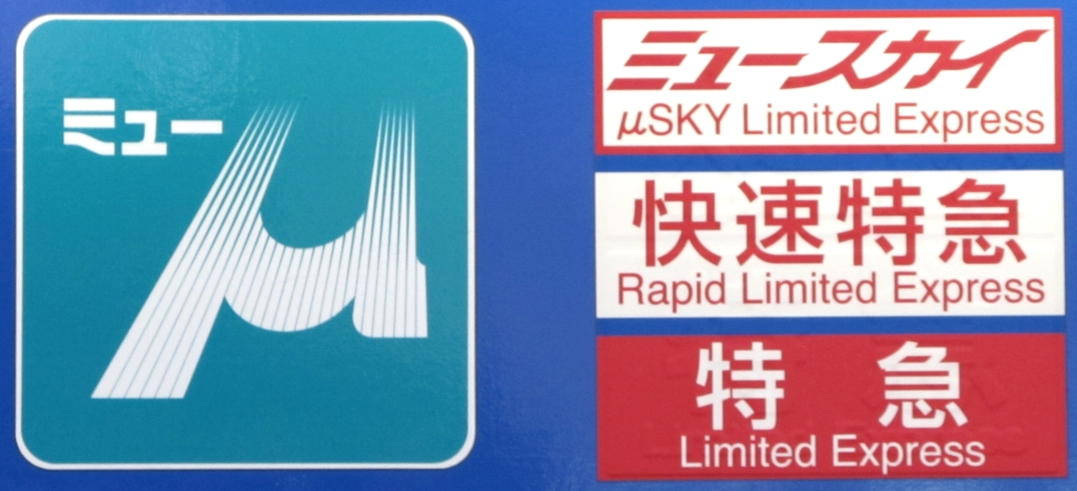 Meitetsu Limited Express Lineup